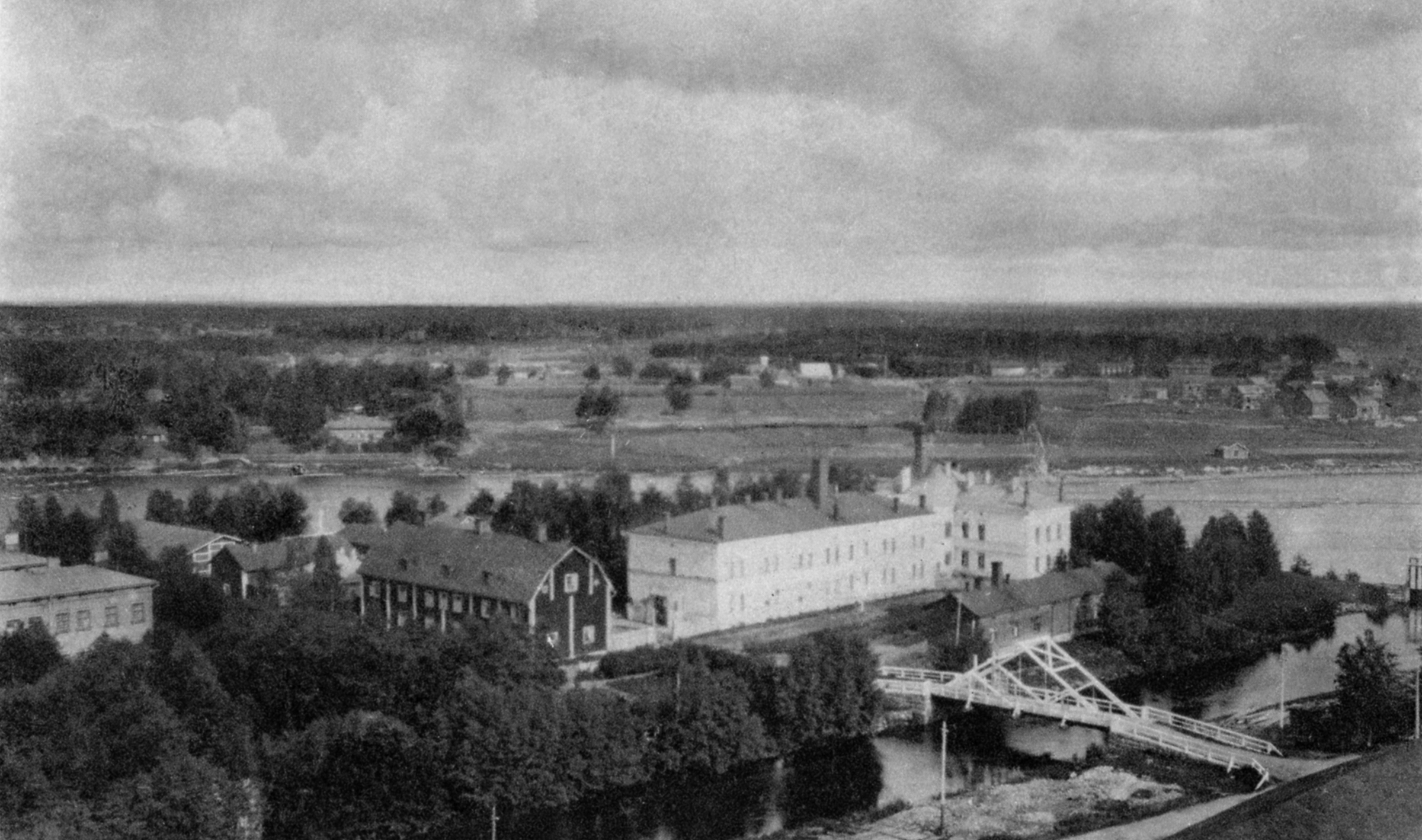 Lasaretinsaari, Oulu Regional Hospital, in early 1920's.